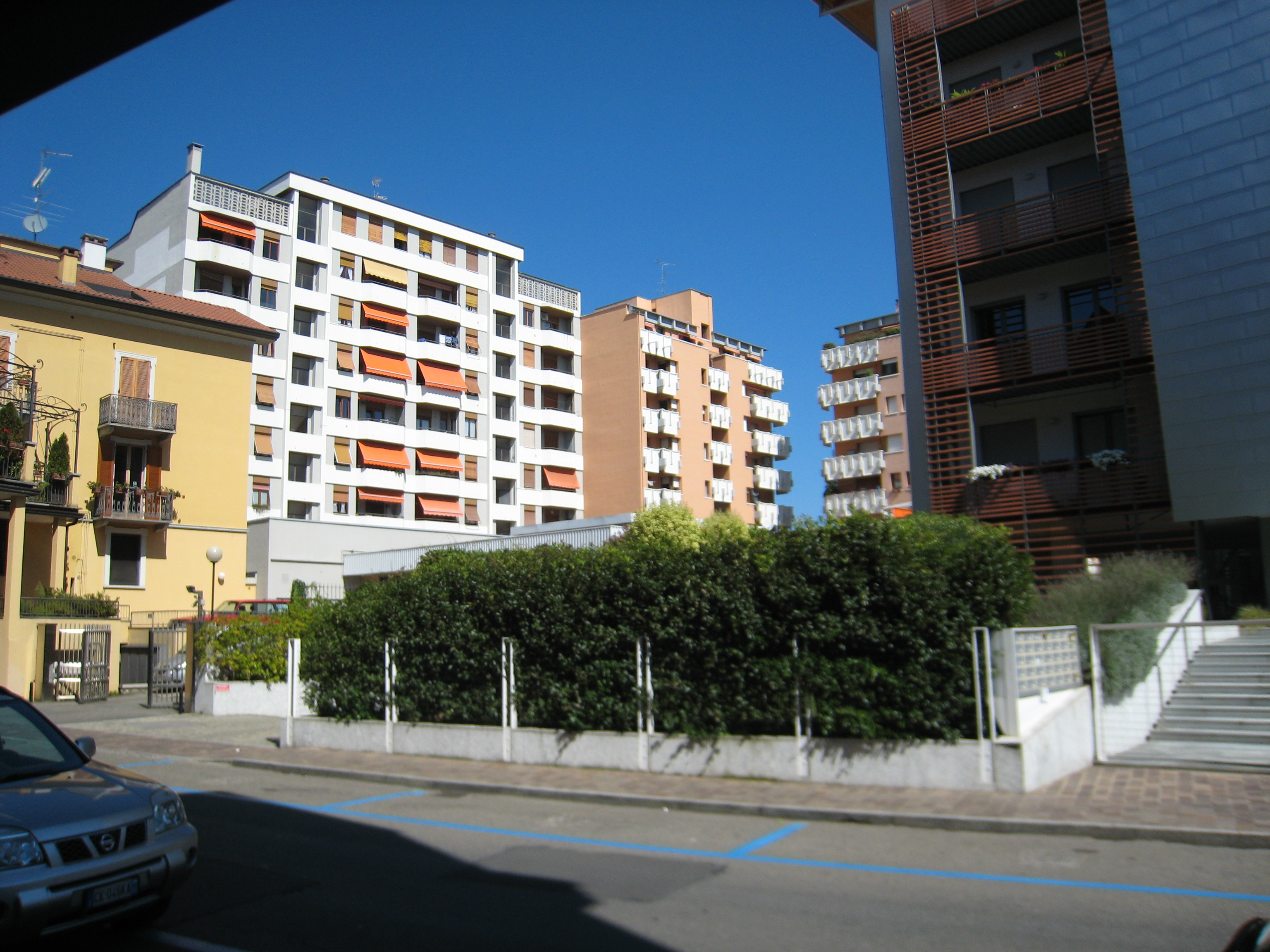 View of the San Rocco neighborhood